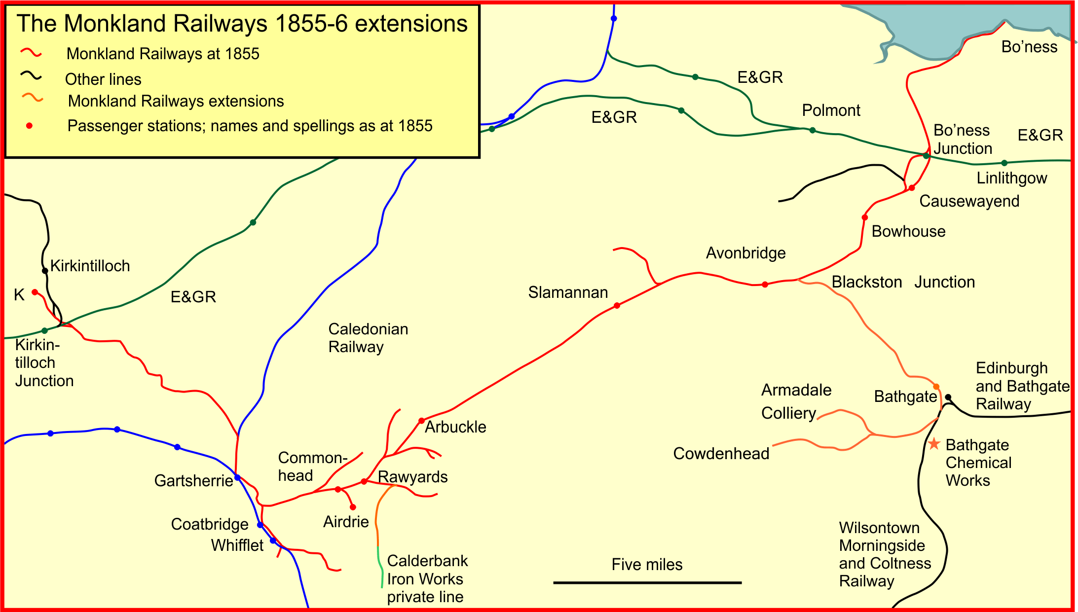 Map of Monkland Railways 1855 showing extensions opened 1855-6